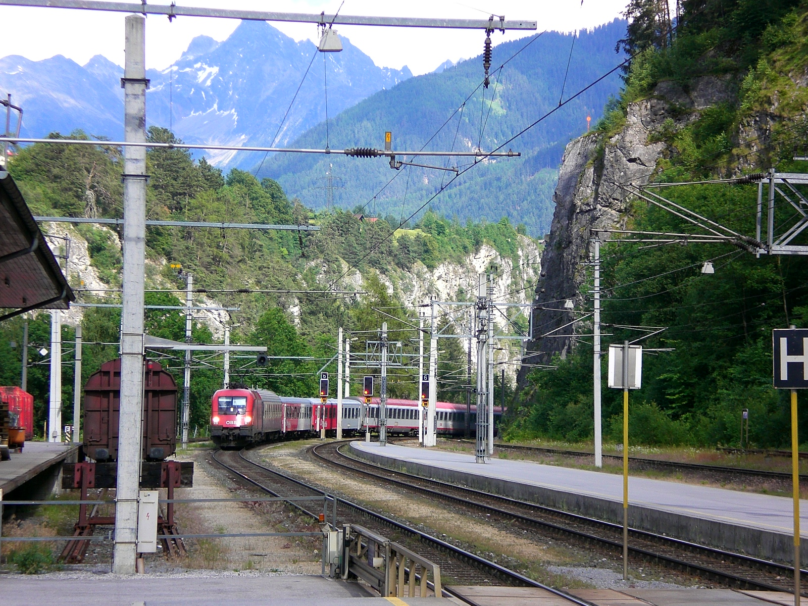 ÖBB EC 668 to Bregenz (westbound) arriving in Imst-Pitztal, Austria